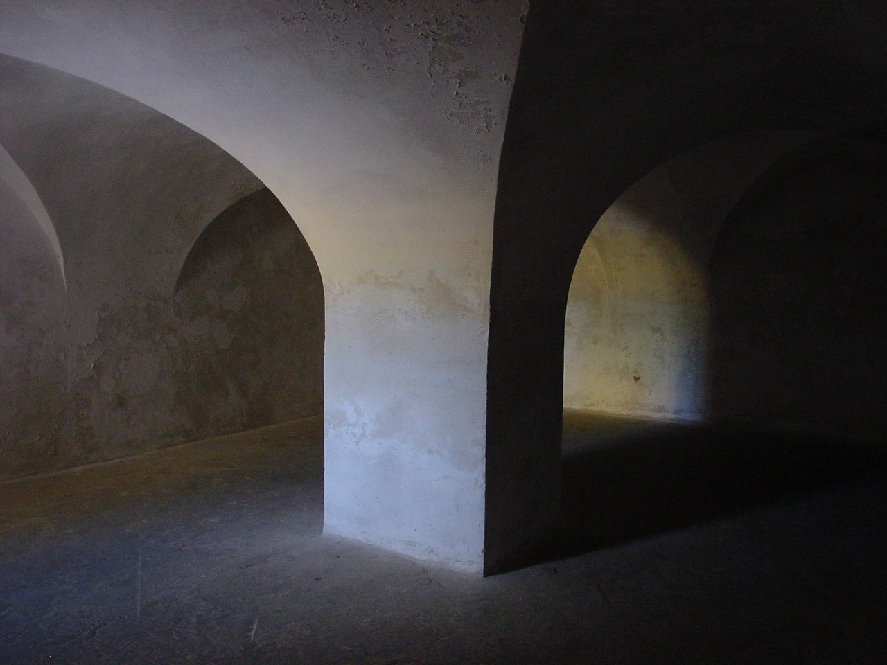 Dungeon at Fort Christiansvaern, Christiansted, St. Croix, USVI